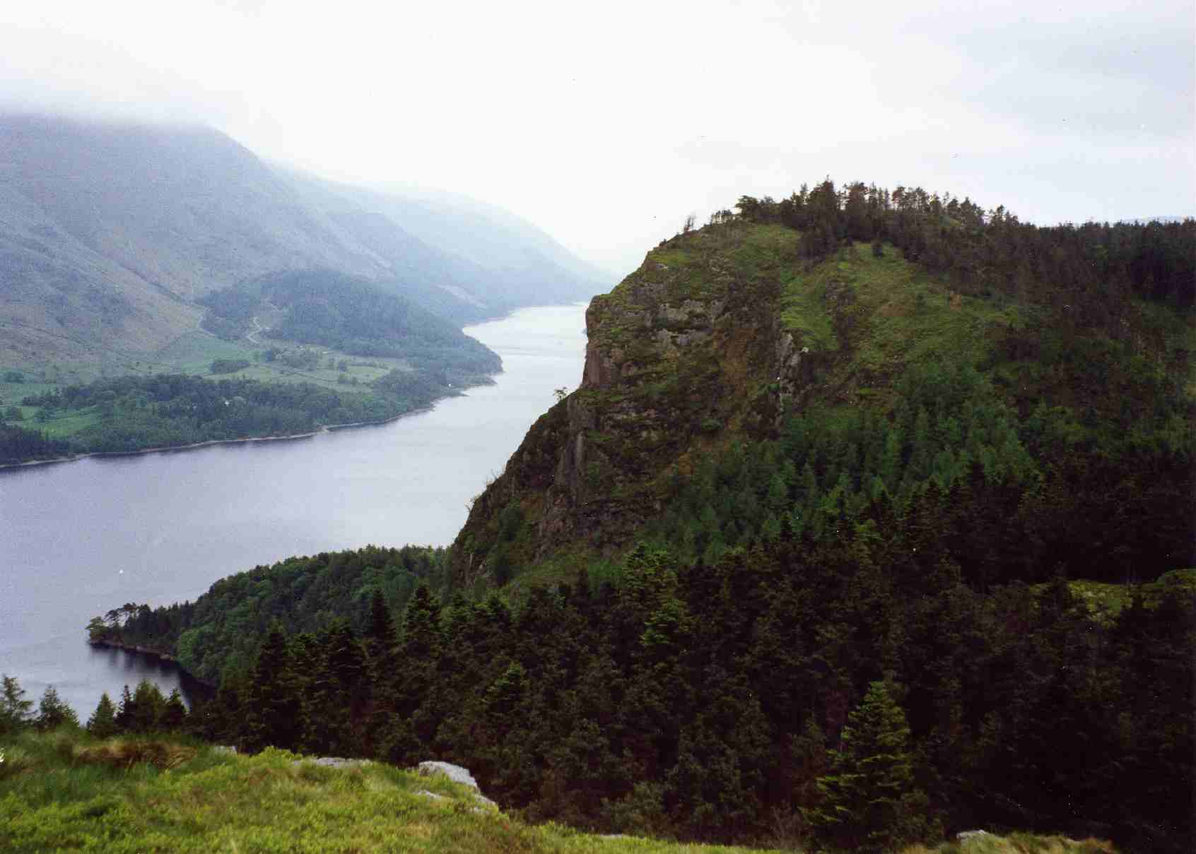 Raven Crag and Thirlmere seen from Castle Crag 300 metres to the north west. Personal photograph by Mick Knapton